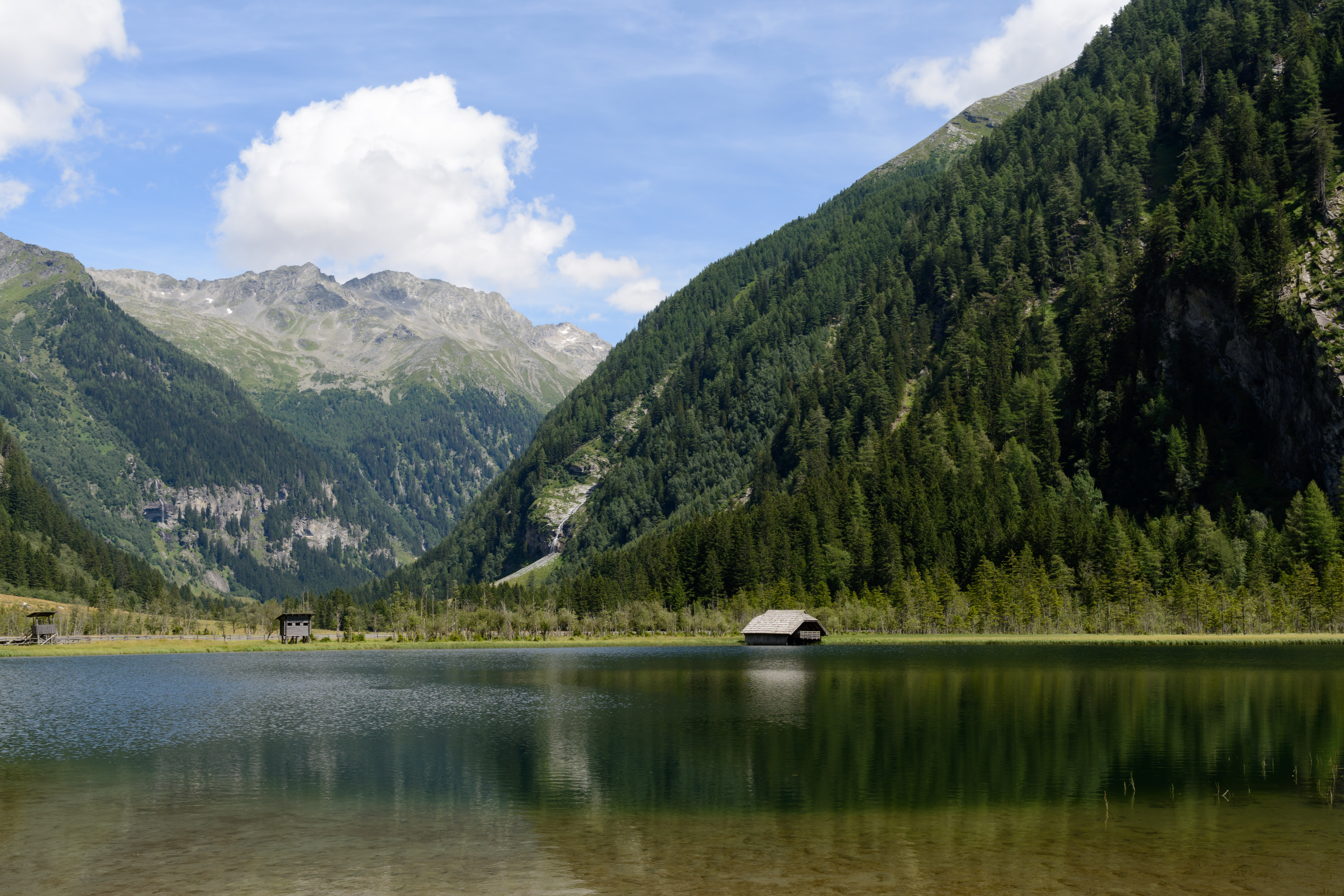 Lake Stappitz in the Seebach Valley near Mallnitz, High Tauern National Park, Carinthia, Austria